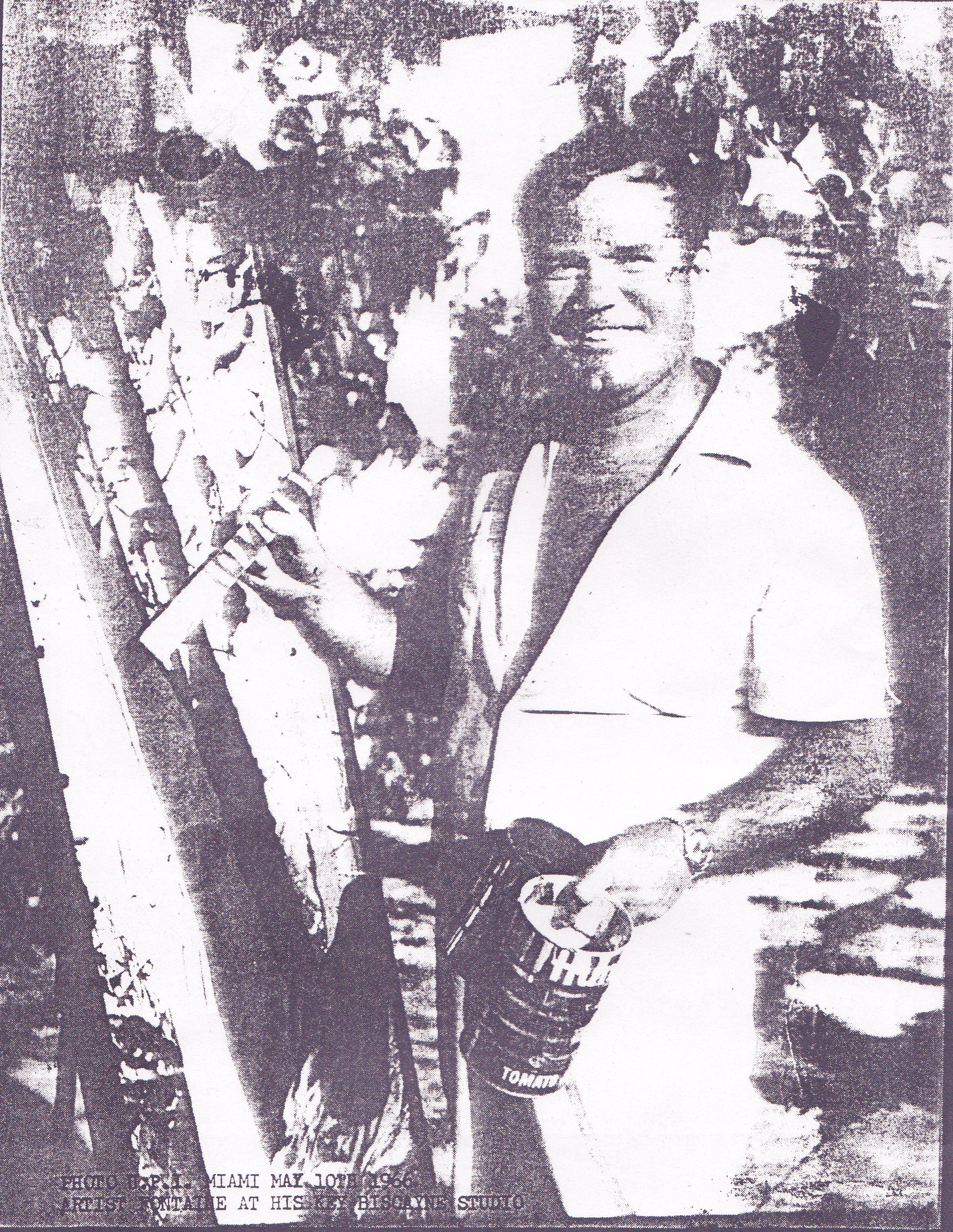 André Fontaine when he was living in USA during the 50s